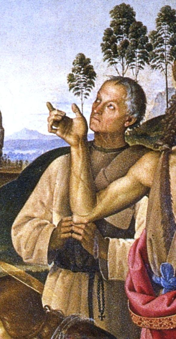 Bl. Giovanni Colombini, from a painting by P. Perugino (Uffizi, Florence)